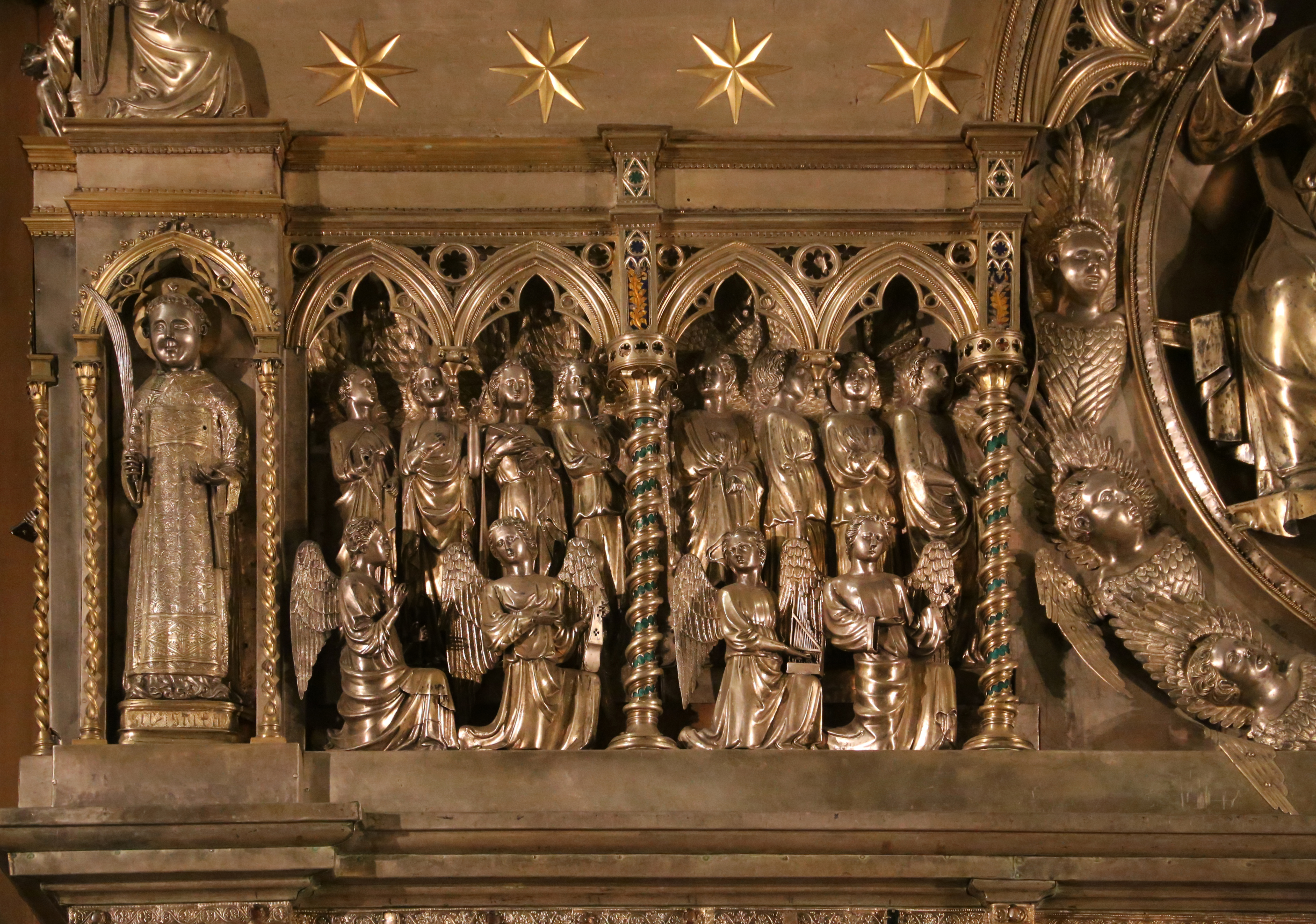 Silver Altar of Saint James